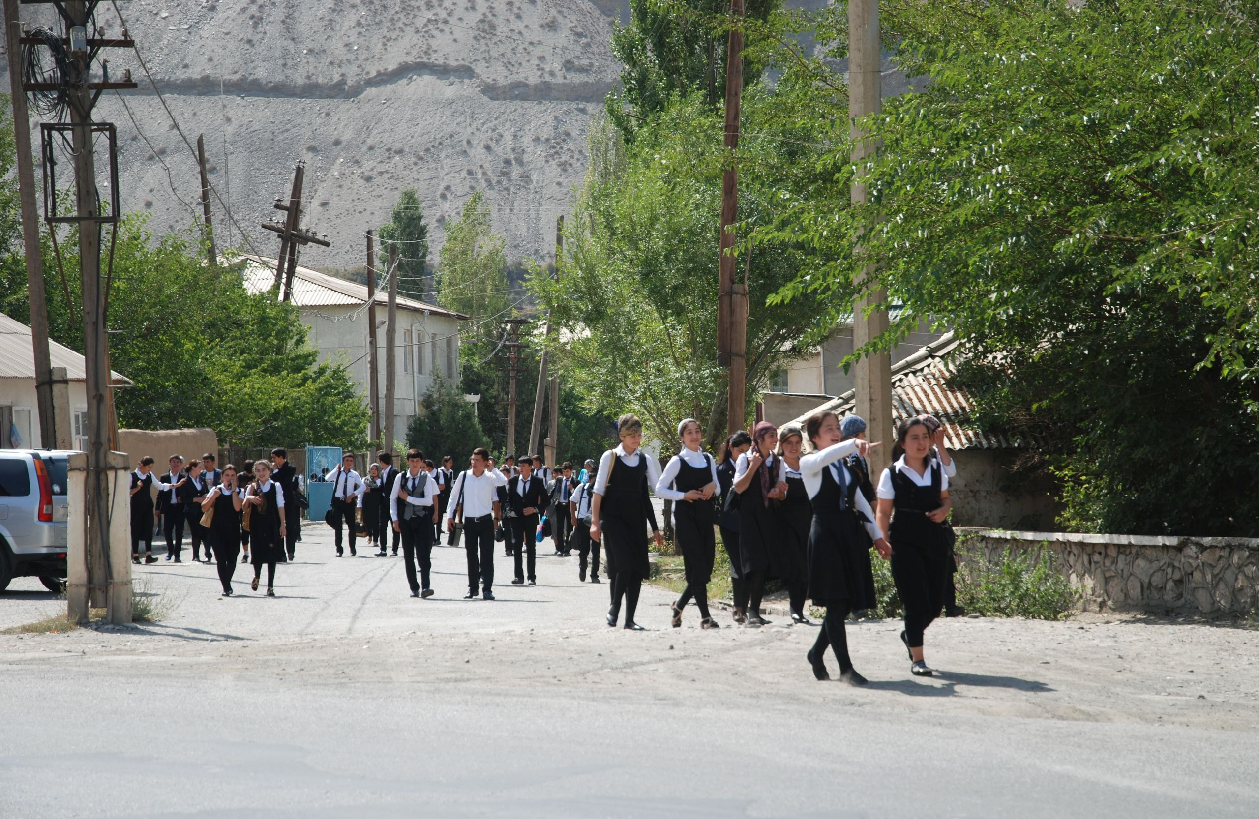 Ayni, center